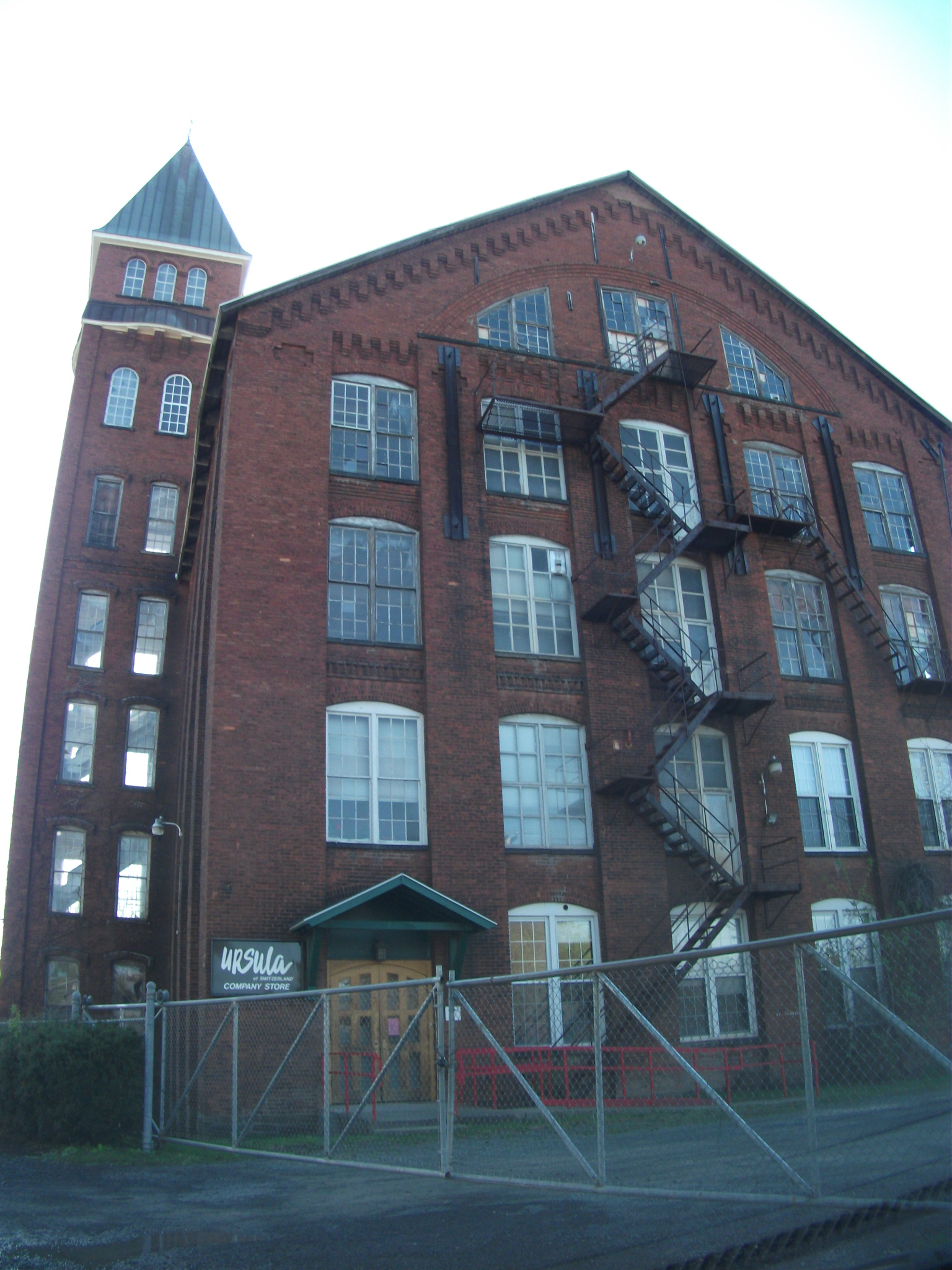 Waterford, New York